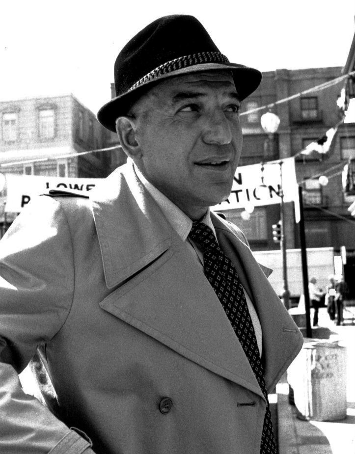 Photo of Telly Savalas as Theo Kojak from the television program Kojak.